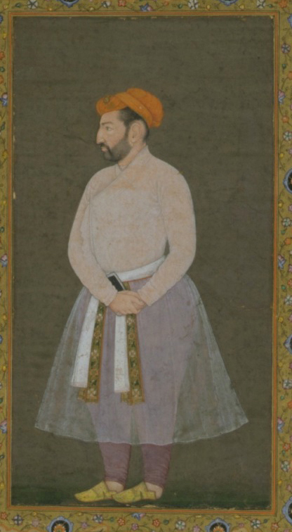 Mir Jumla is depicted standing facing left on a brown ground. A gold ground border surrounding him is filled with ornamented verses in Persian cut from another sheet and pasted onto the page. The indigo-coloured outer border is filled with gold blossoming plants.